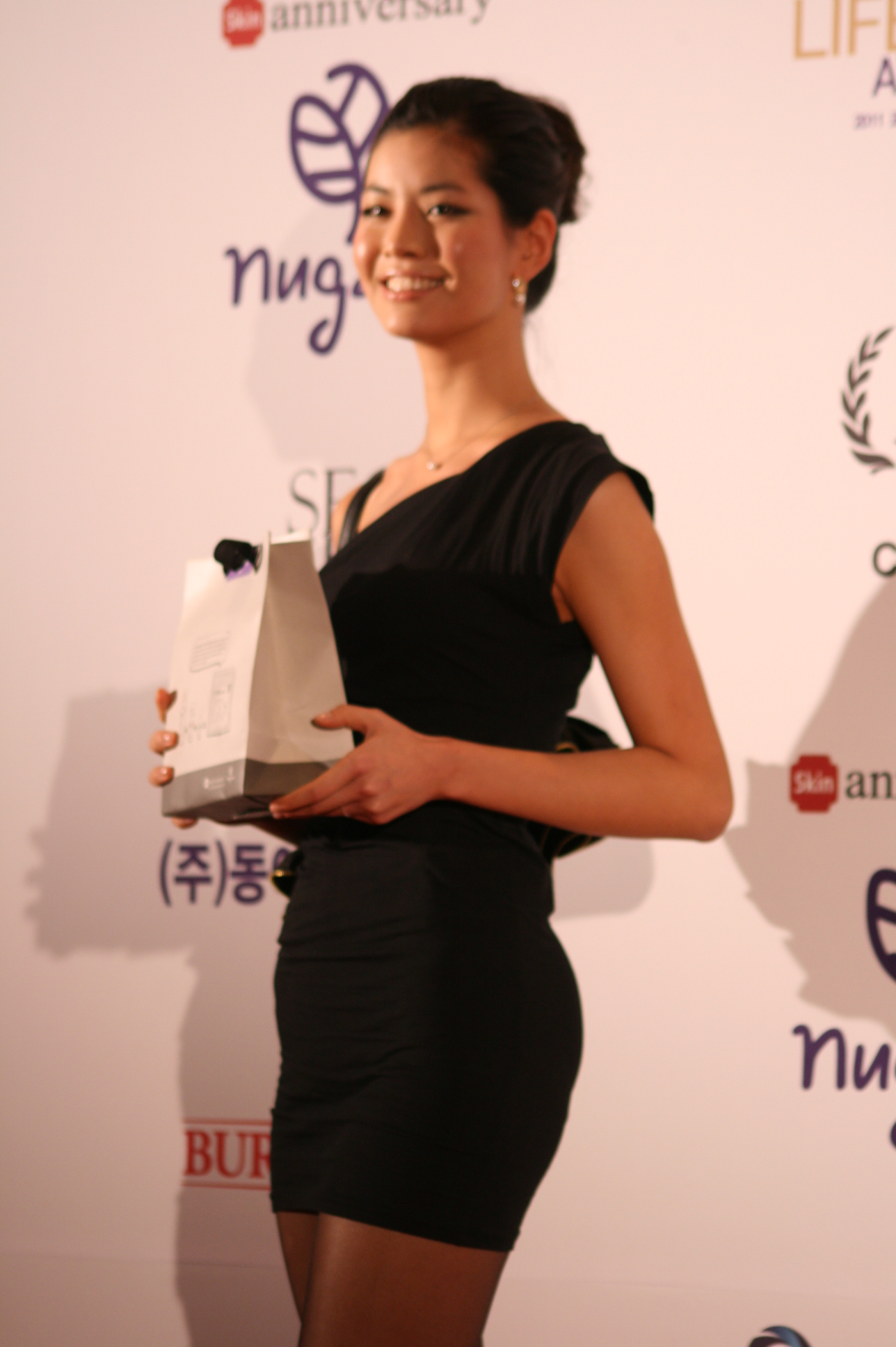 2011 Miss World Korea